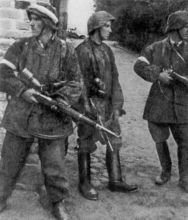 Soldiers of Batalion Zośka of Polish Home Army during Warsaw Uprising on 5 August 1944 in Gęsiówka. The men are dressed in stolen German uniforms and armed with confiscated German weapons. From left: Wojciech Omyła "Wojtek", Juliusz Bogdan Deczkowski "Laudański" and Tadeusz Milewski "Ćwik". Milewski was killed the day of taking this photography. Omyła was killed three days later, on August 8, 1944. A moment after taking this picture, a German rifle-missle has hit the wall over those guerrillas' heads. Noone was injured.